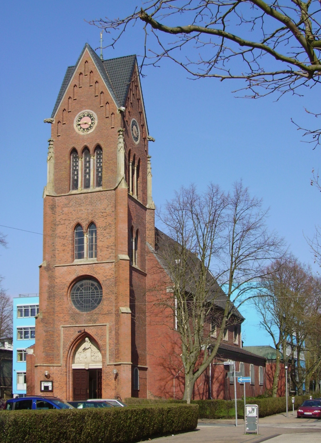 The Catholic church St. Marien in Bremerhaven